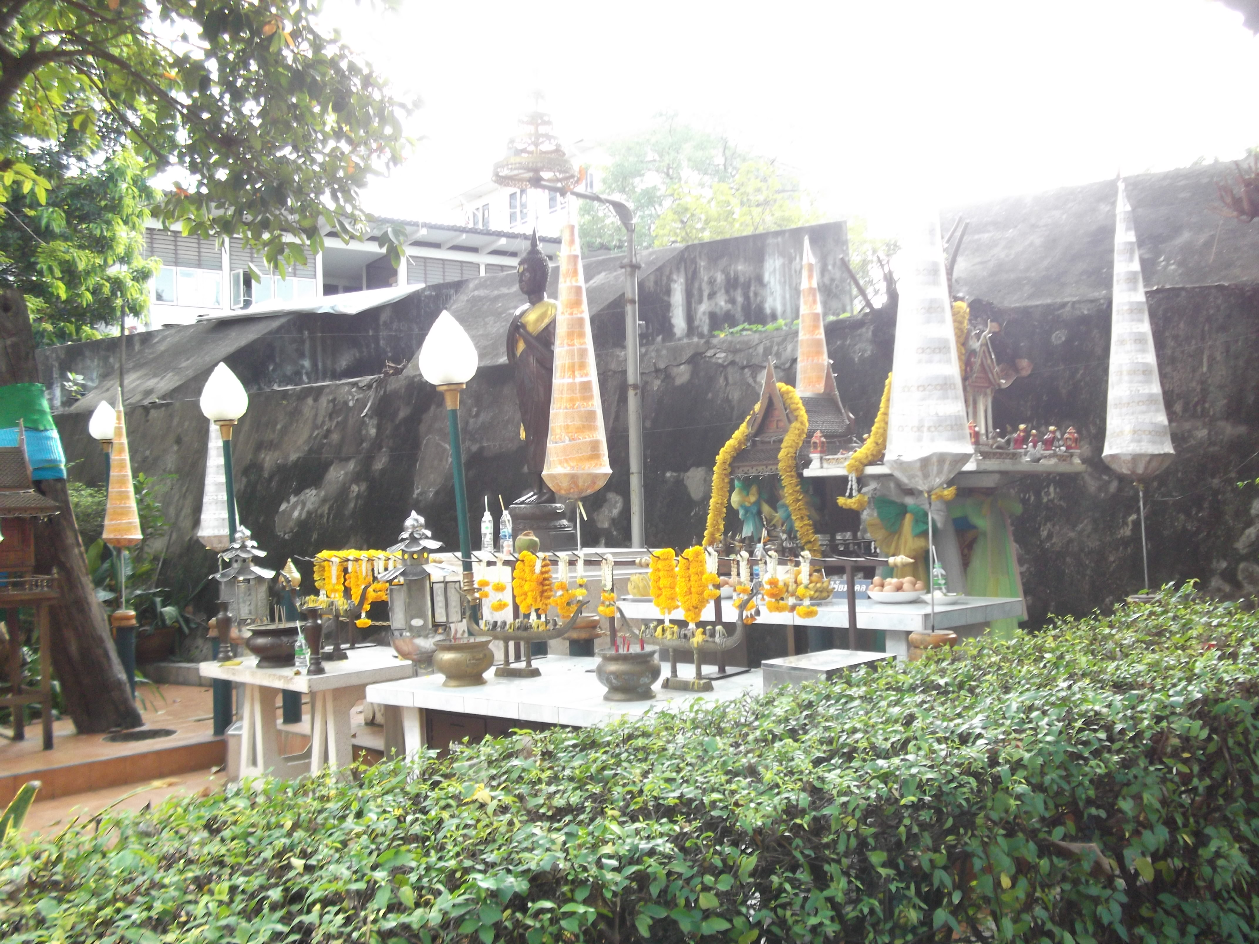 ป้อมป้องปัจจามิตร